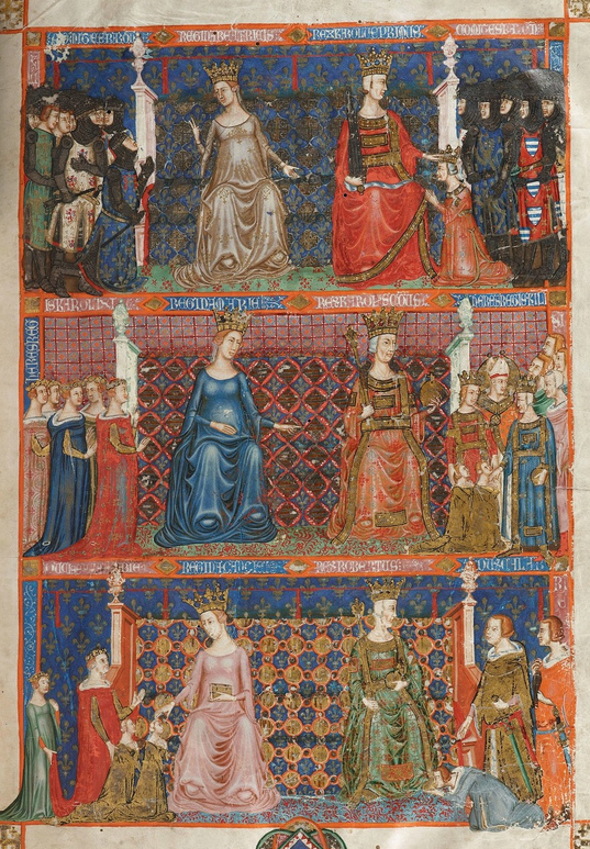 Illuminated Naples Bible